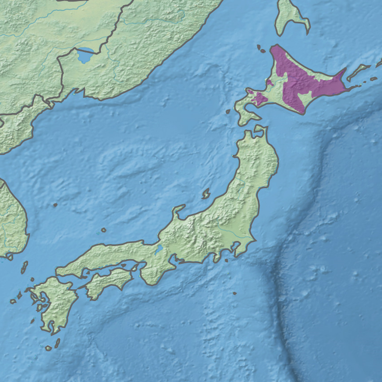 Ecoregion PA0510 - Hokkaido montane conifer forests (in purple)